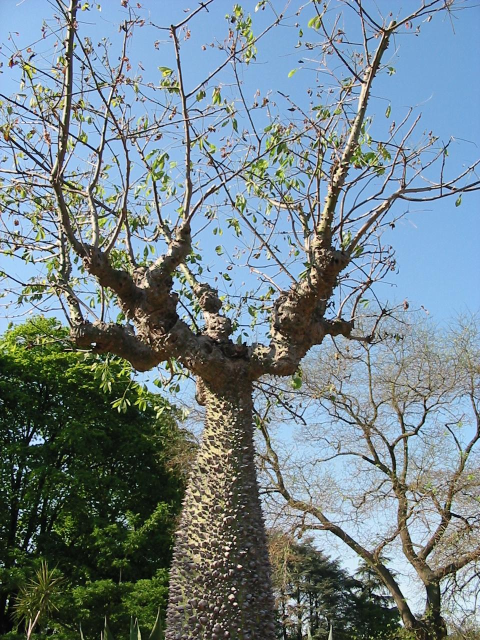 probably Ceiba chodatii, species have been confused for a long time - see Gibbs P. & Semir J. 2003: A taxonomic revision of the genus Ceiba Mill. (Bombacaceae). Anales Jard. Bot. ---- Originally (mis?)identifed as: Chorisia insignis